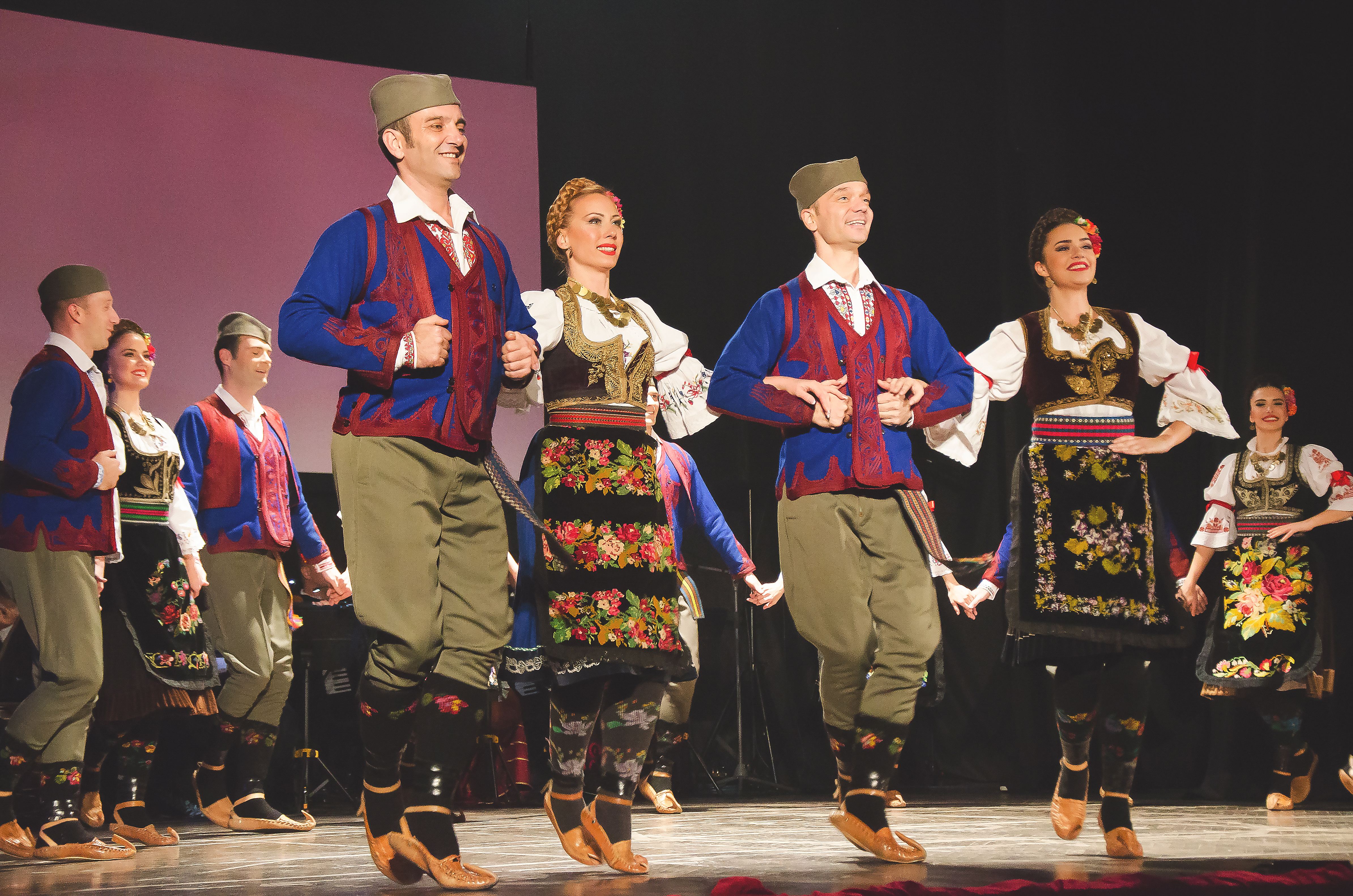 Srpski (latinica): This photo has been taken in the country: Unknown